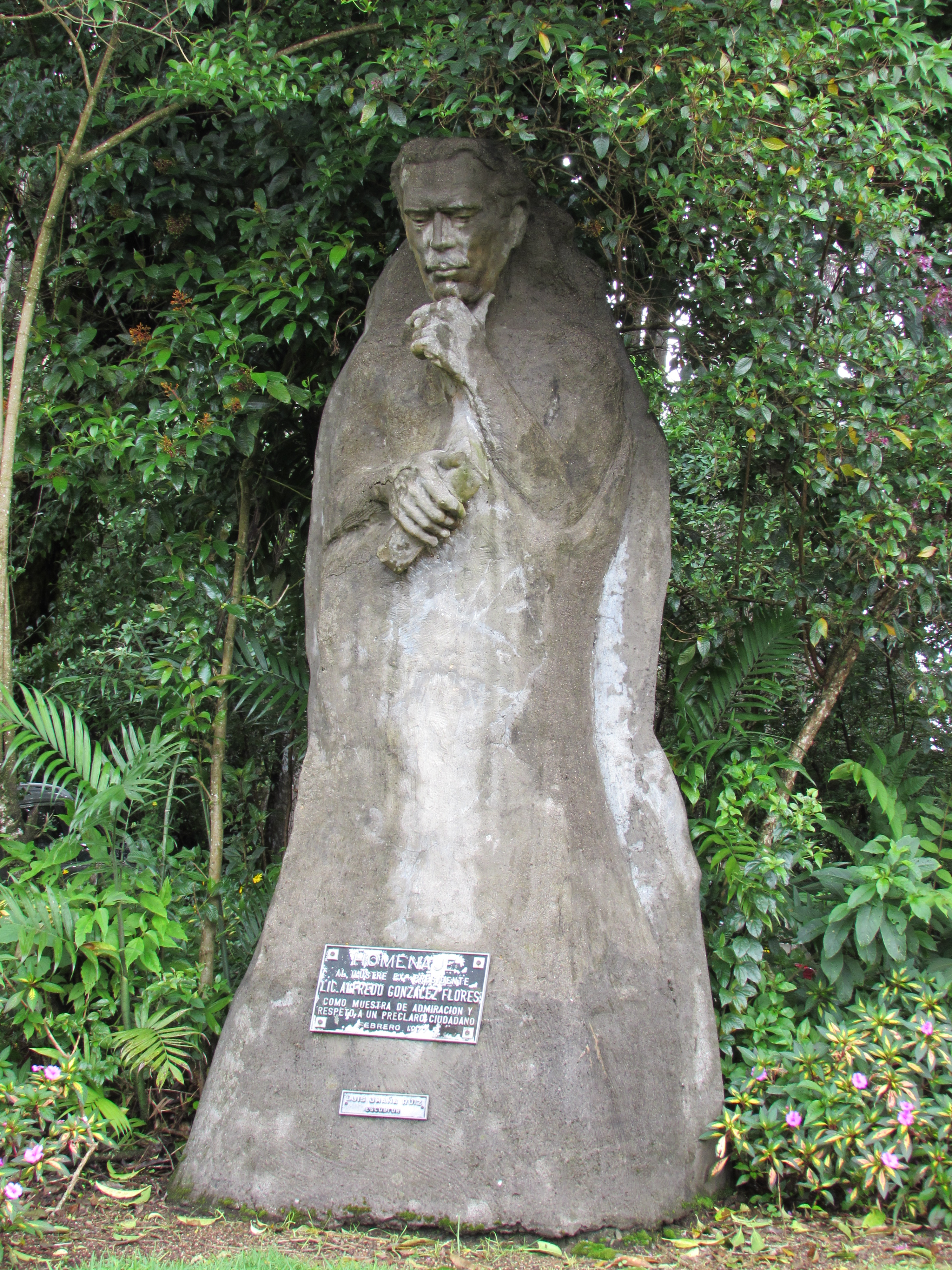 Statue in homage to Alfredo González Flores, ex-president of Costa Rica (1914-1917), statue located in Montecito de Heredia, Costa Rica